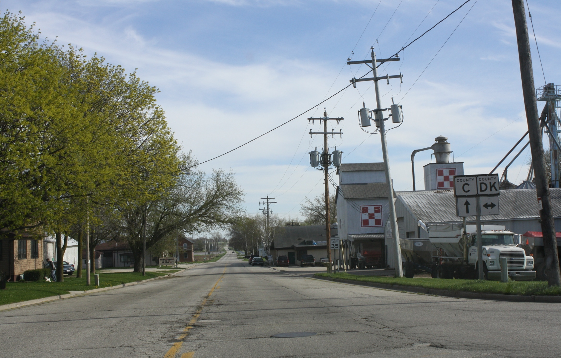 Looking south in downtown Brussels, Wisconsin.